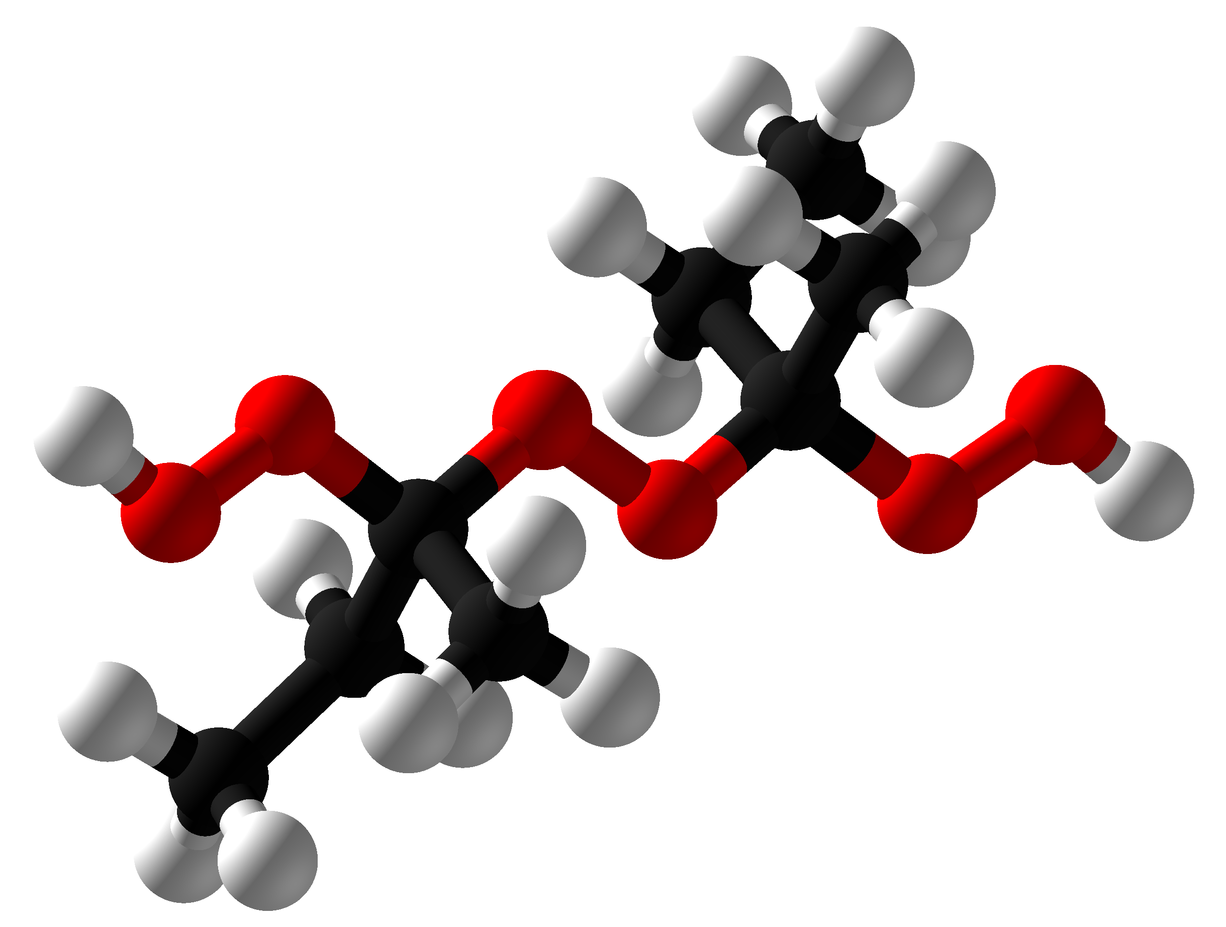 Methyl ethyl ketone peroxide Ball and Stick